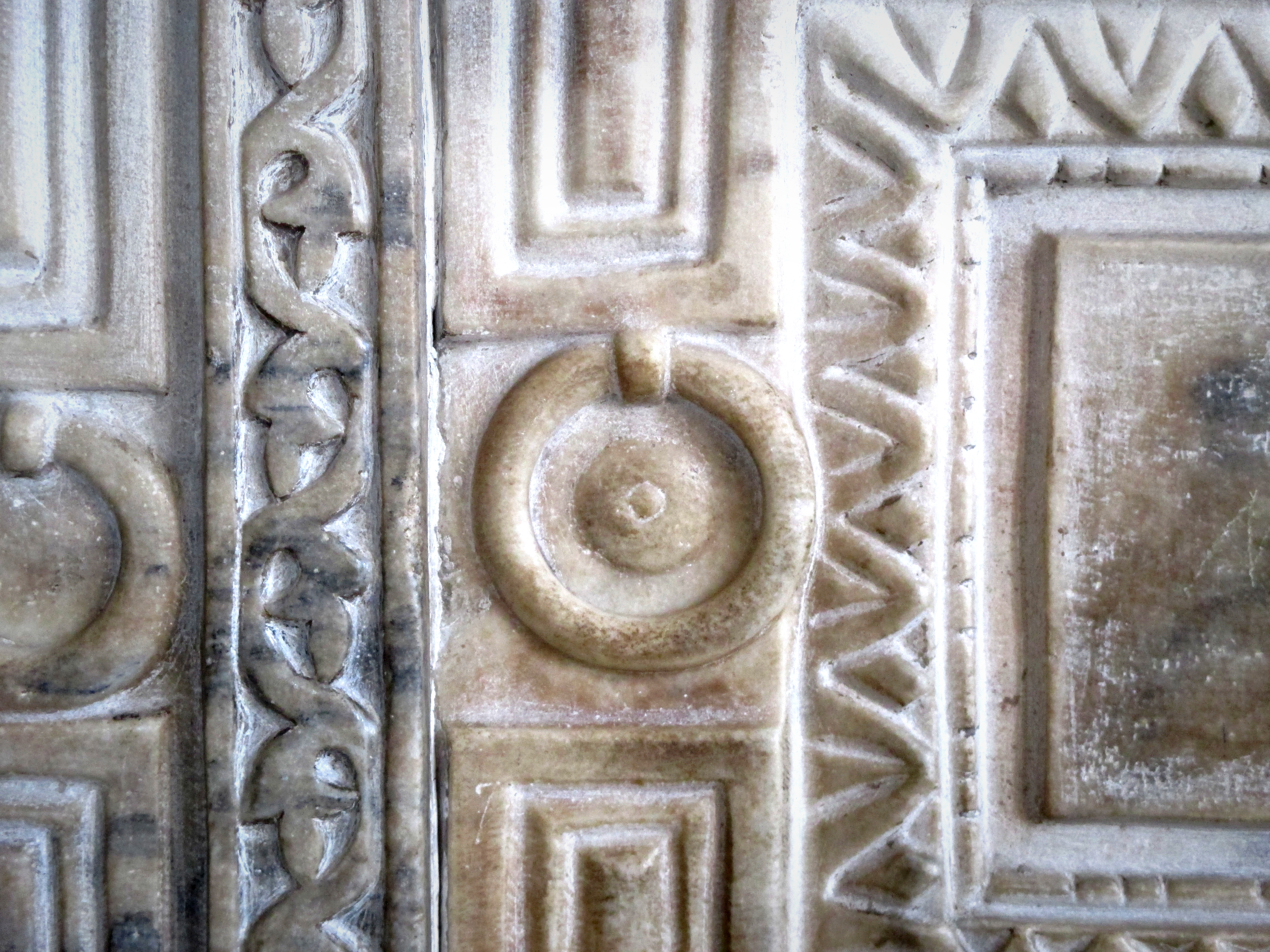 Close-up shot showing relief detail on the Hagia Sophia's Marble Door.